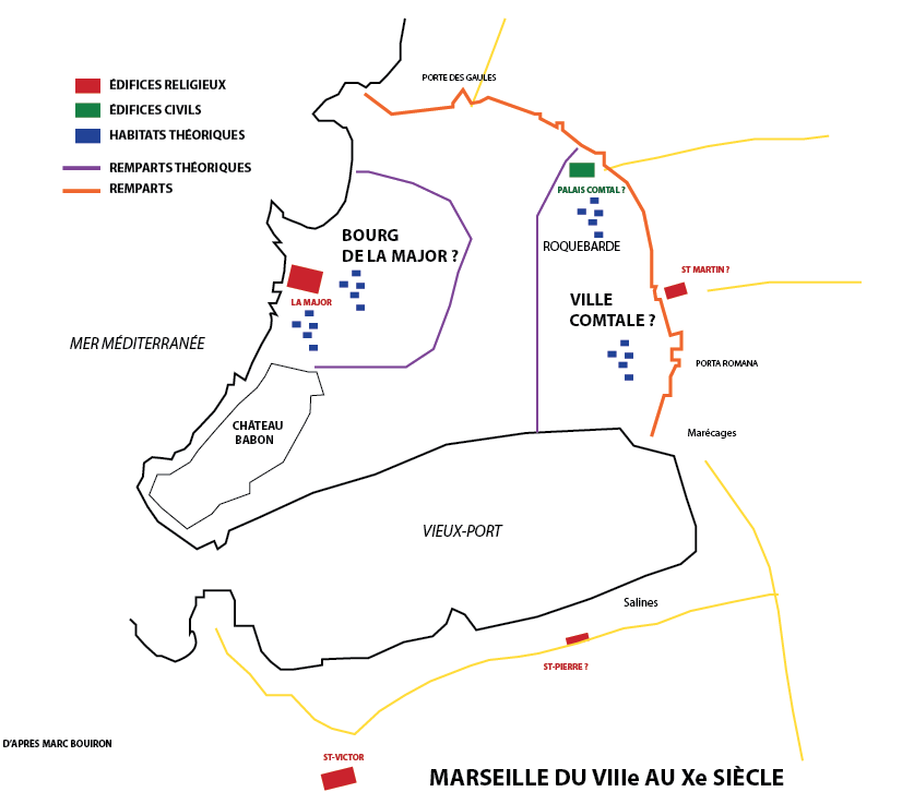 Marseille du VIIIe au Xe siècle